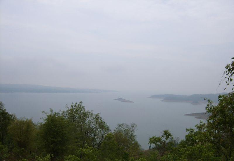 A beautiful view of water lake from India